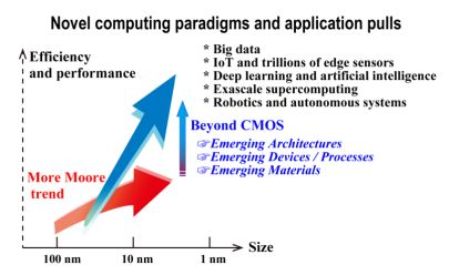 Graph of efficiency under 'more Moore' and 'Beyond CMOS' assumptions in the International Roadmap for Devices and Systems